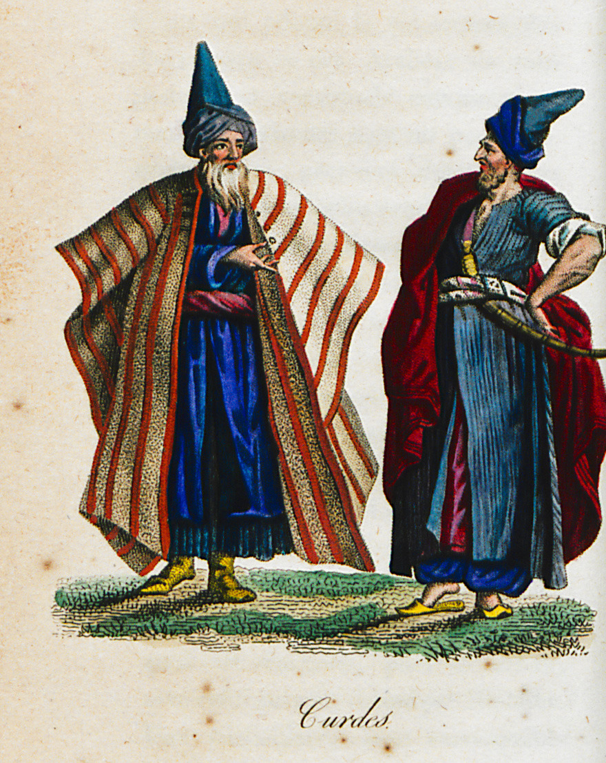 Antoine-Laurent Castellan. Moeurs, usages, costumes des Othomans, et abrégé de leur histoire; par A. L. Castellan, auteur de Lettres sur la Morée et sur Constantinople, Paris, Nepveu, 1812.